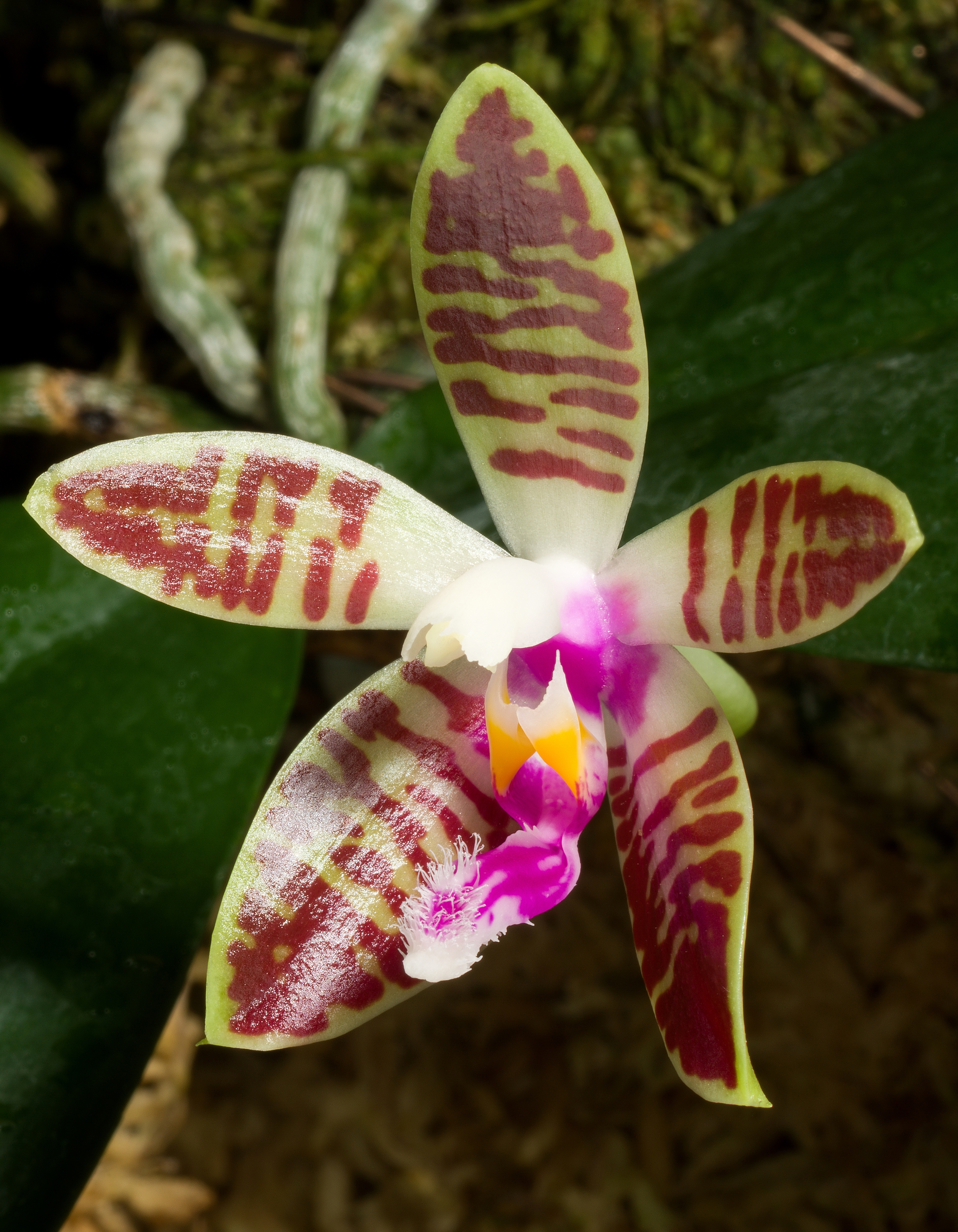 SUBGENUS Polychilos SECTION Zebrinae Pfitzer (1889) Distribution: Borneo (Sarawak) (42 BOR) Lifeform: Epiphyte Homotypic synonyms Polychilos corningiana (Rchb.f.) Shim, Malayan Nat. J. 36: 23 (1982) Heterotypic synonyms Phalaenopsis cumingiana Rchb.f., Gard. Chron., n.s., 15: 562 (1881) Phalaenopsis sumatrana var. sanguinea Rchb.f., Gard. Chron., n.s., 15: 782 (1881) Phalaenopsis sumatrana subvar. sanguinea (Rchb.f.) A.H.Kent in H.J.Veitch, Man. Orchid. Pl. 7: 40 (1891)